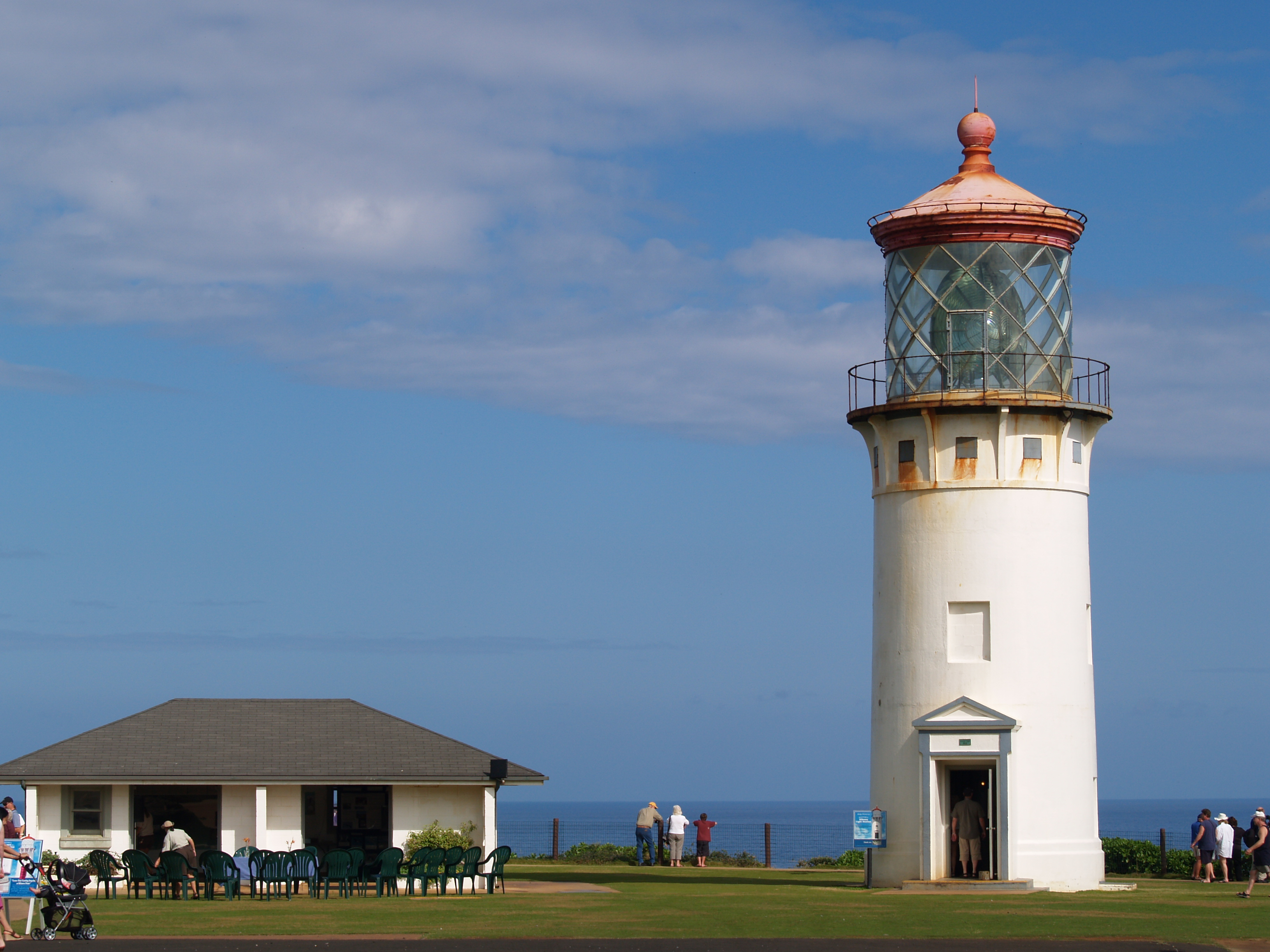 Kilauea Point Light Station